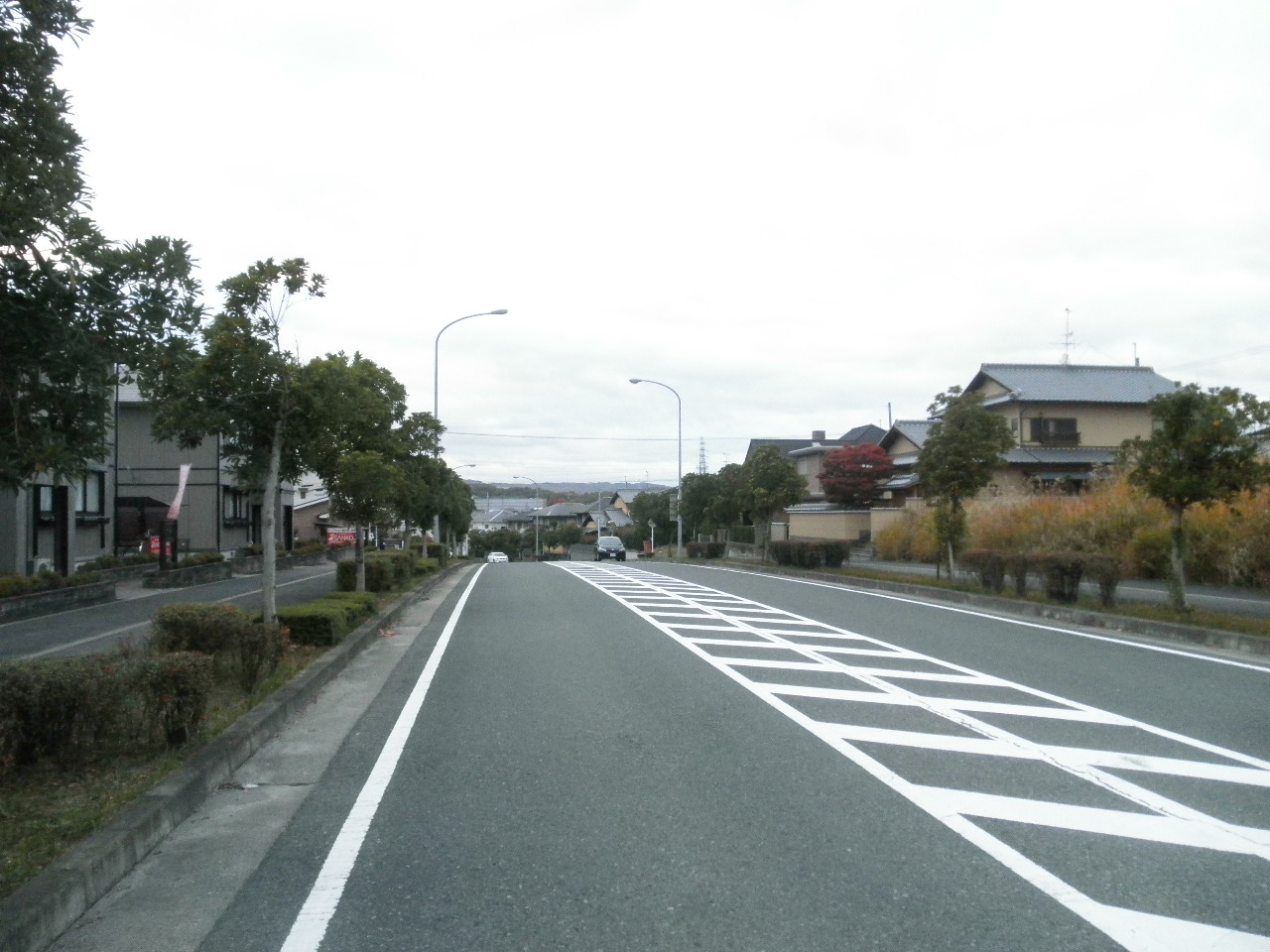 Saganakadai5 Kizugawacity Kyotopref Kyotoprefectural road 327 Saganakadai Saganaka Line